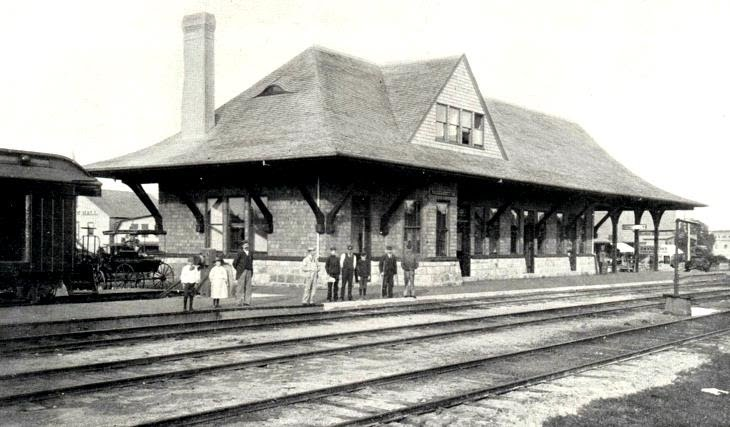 Boon Street station of the Narragansett Pier Railroad, built in 1896